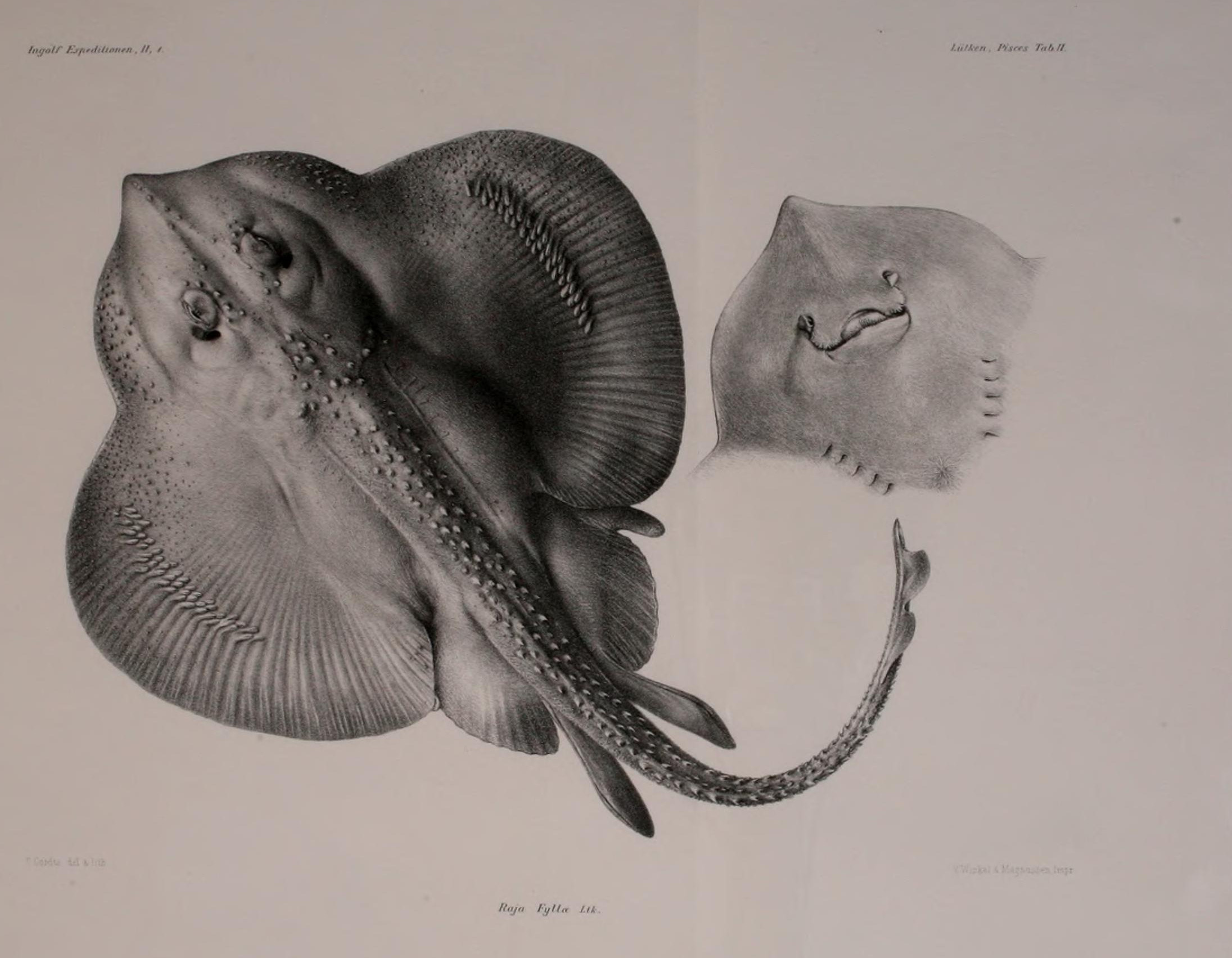 Image of the type of Raja fyllae as published by Christian Frederik Lütken in 1898 in: The Ichthyological Results. The Danish Ingolf Expedition 2(1): appendix tab 2